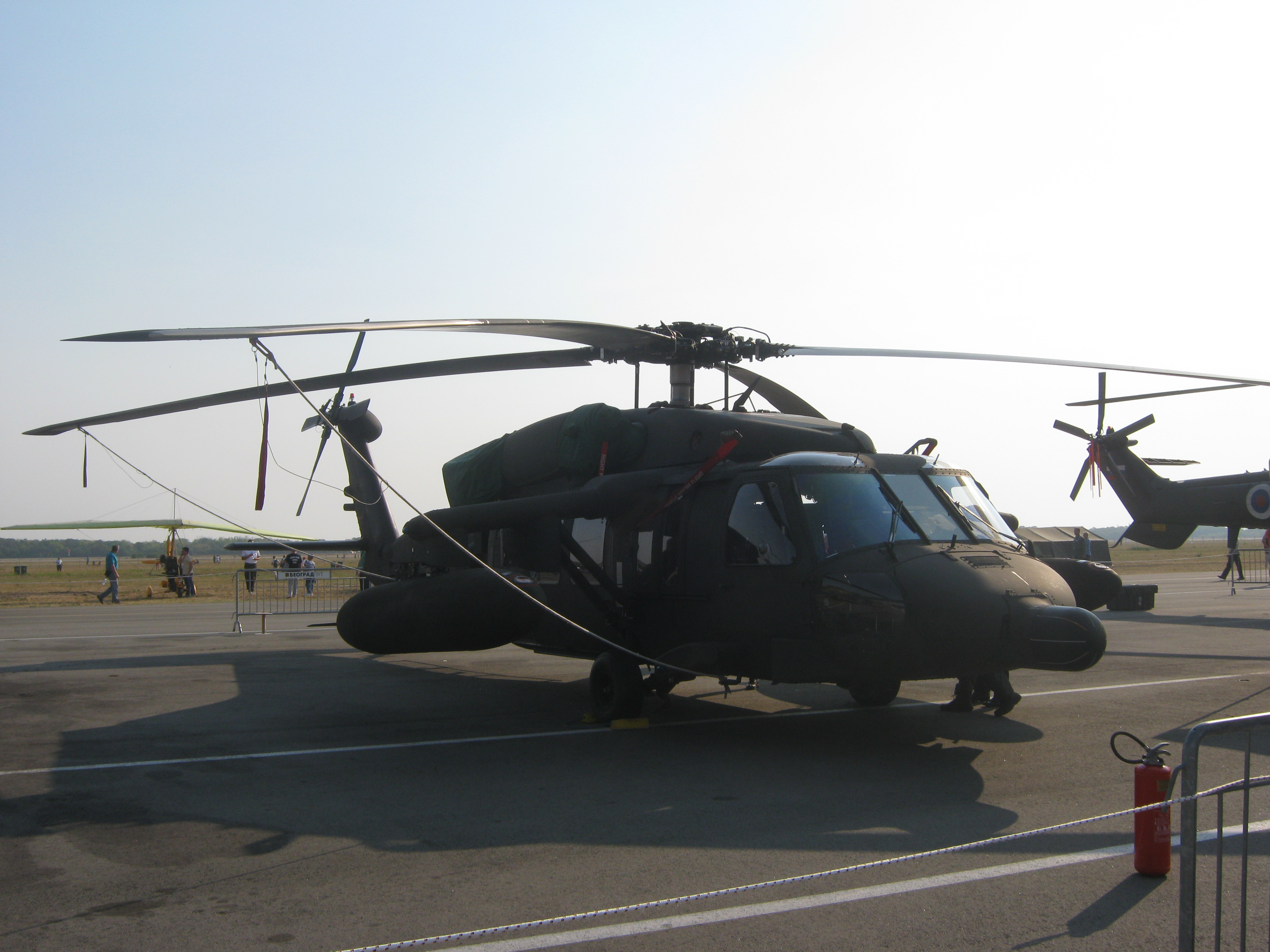 UH-60 Black Hawk at Batajnica Airshow, 2012